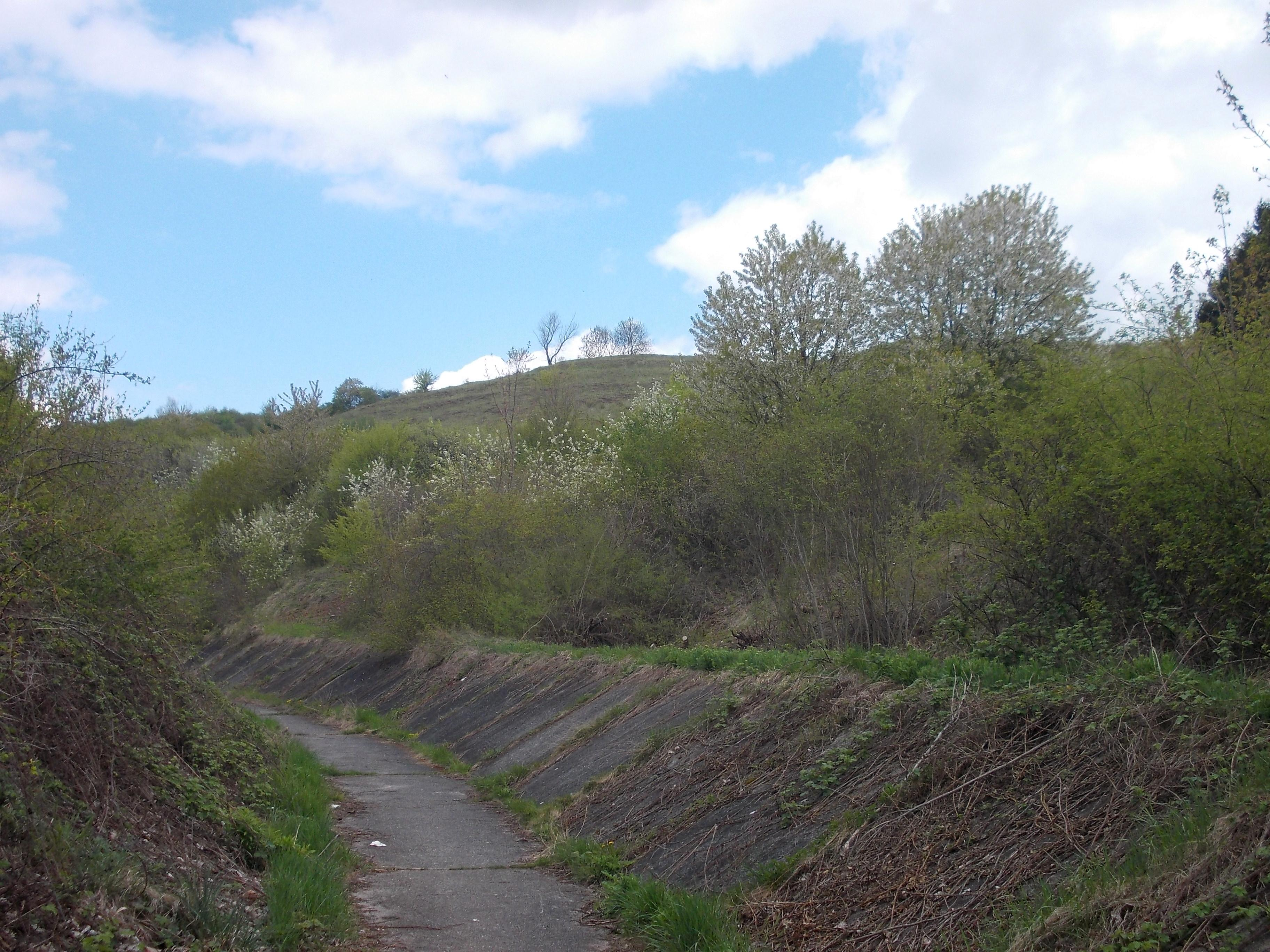 Galgenberg und Fuchshöhlen nature reserve north of Süsser See in Mansfeld-Südharz district, Saxony-Anhalt